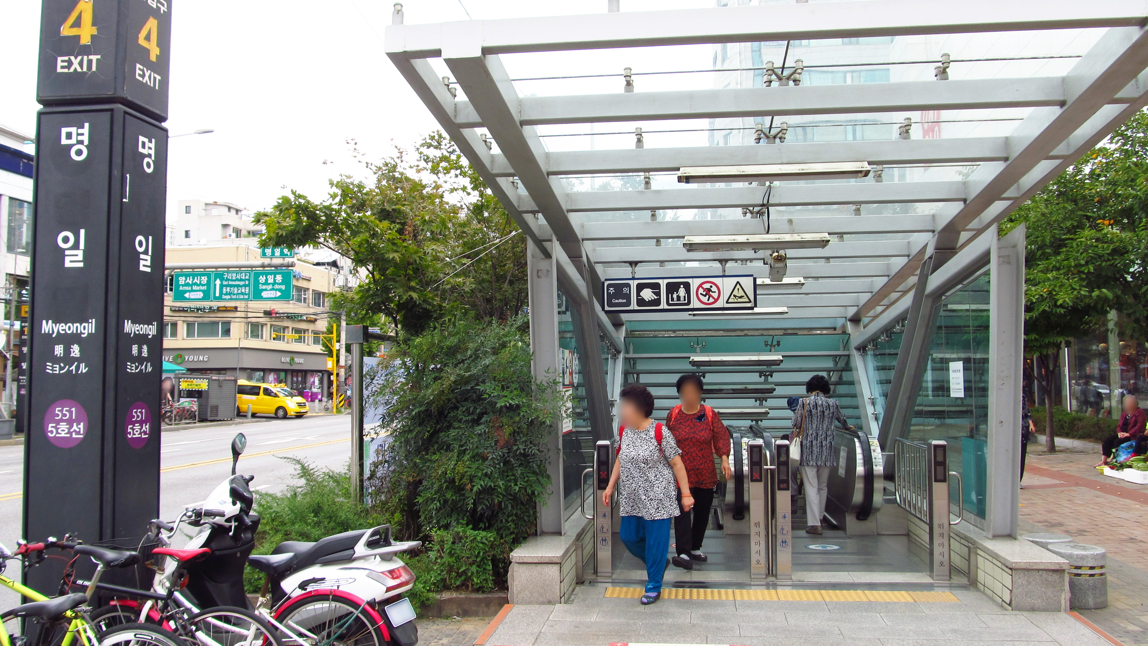 The no.4 entrance to Myeongil Station on the Seoul Metro Line 5 in Gangdong-gu, Seoul, Republic of Korea(South Korea)